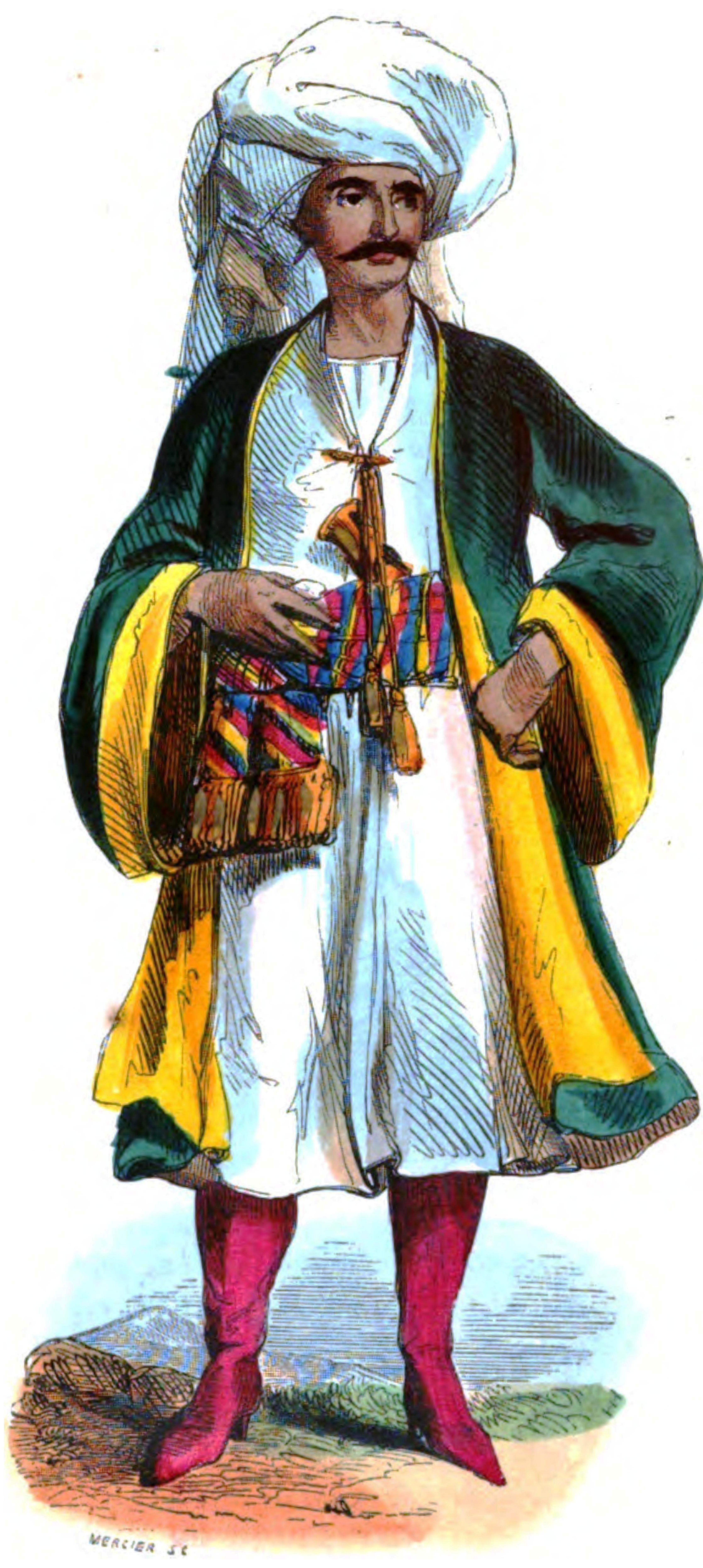 Auguste Wahlen, Moeurs, usages et costumes de tous les peuples du monde, Volume 1. Publisher La Librairie historique-artistique, 1843